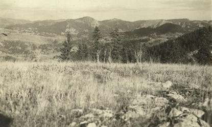 Bulgaria